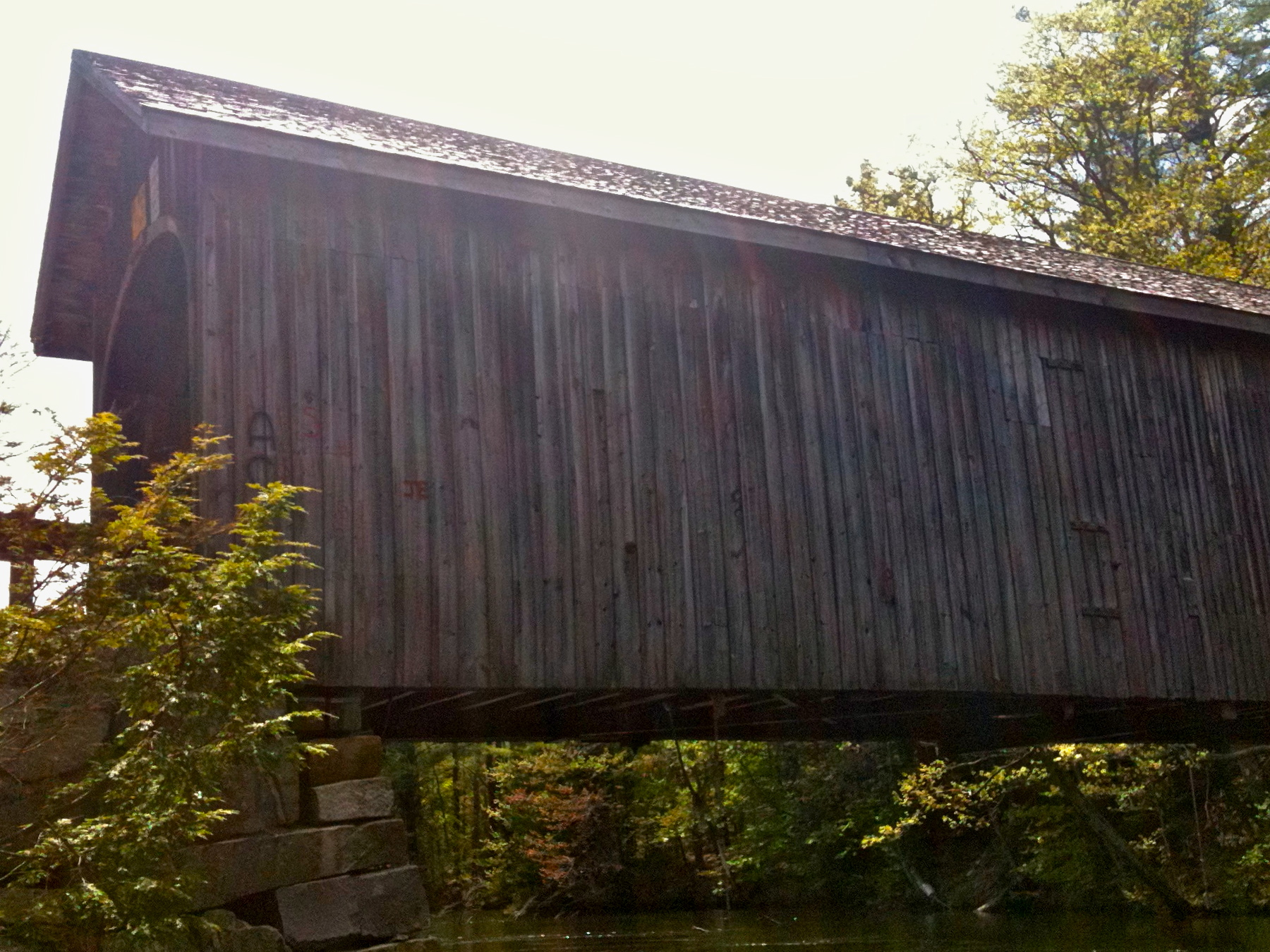 Babbs Bridge, a covered bridge in Windham, Maine